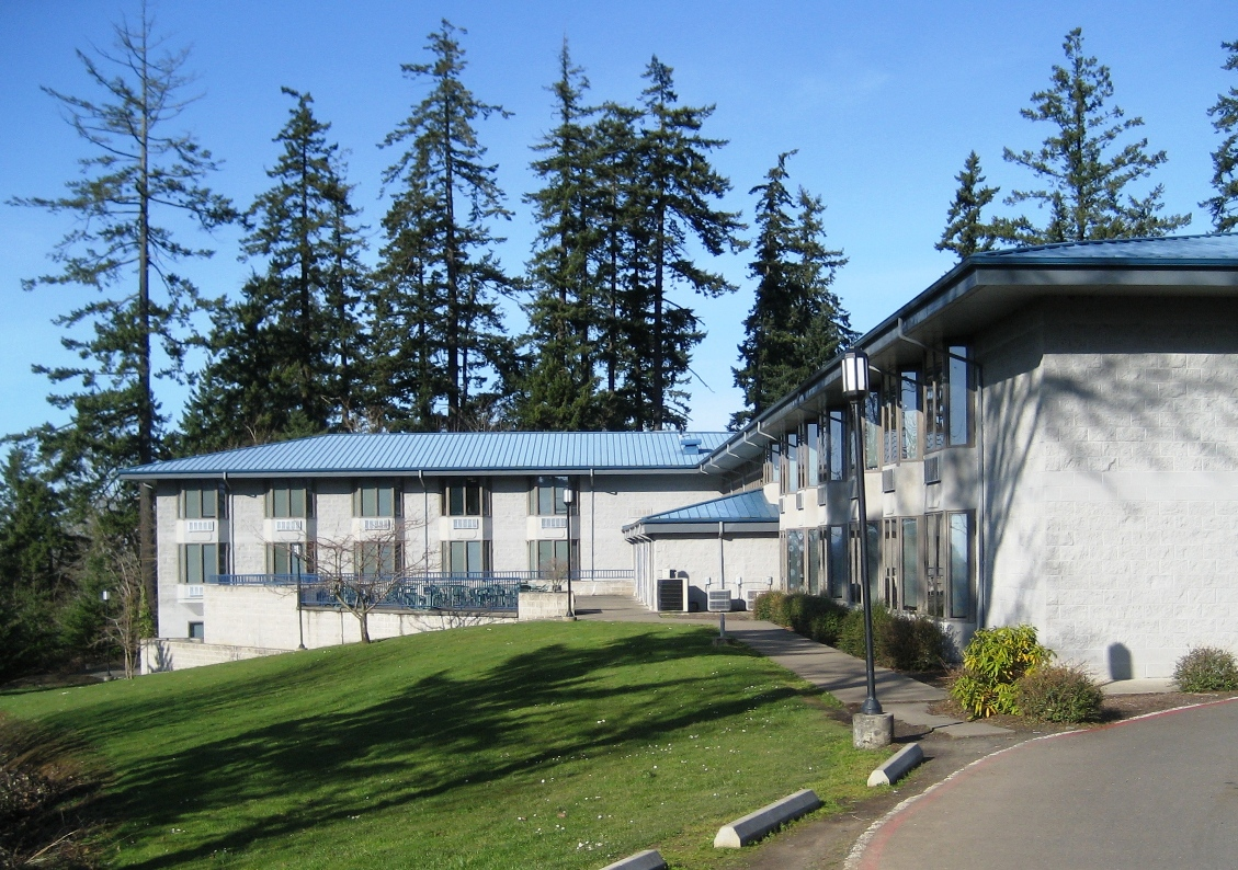 Dorm at Corban College in Salem, Oregon, USA